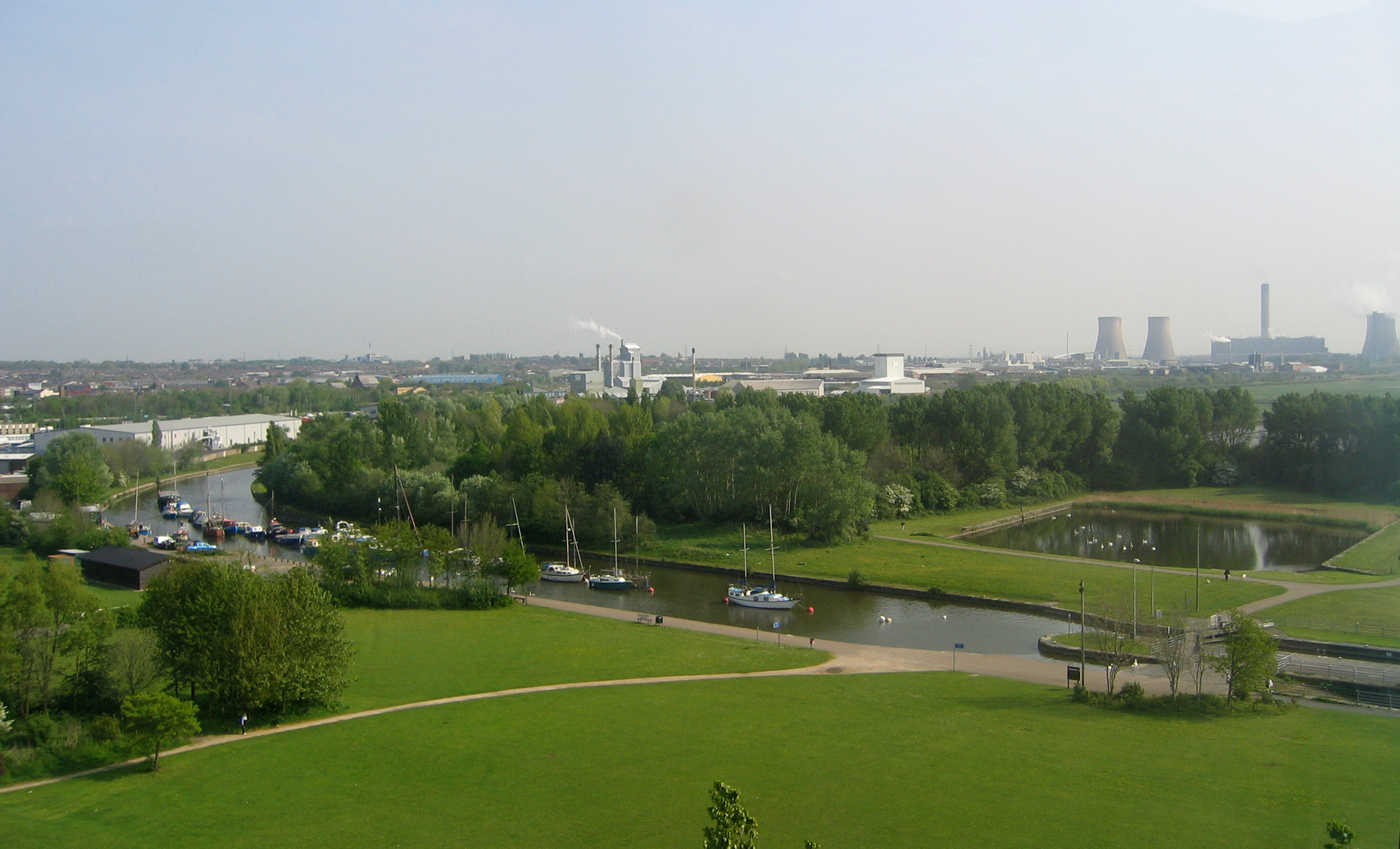 Spike Island today. The site of the first chemical factory in Widnes.